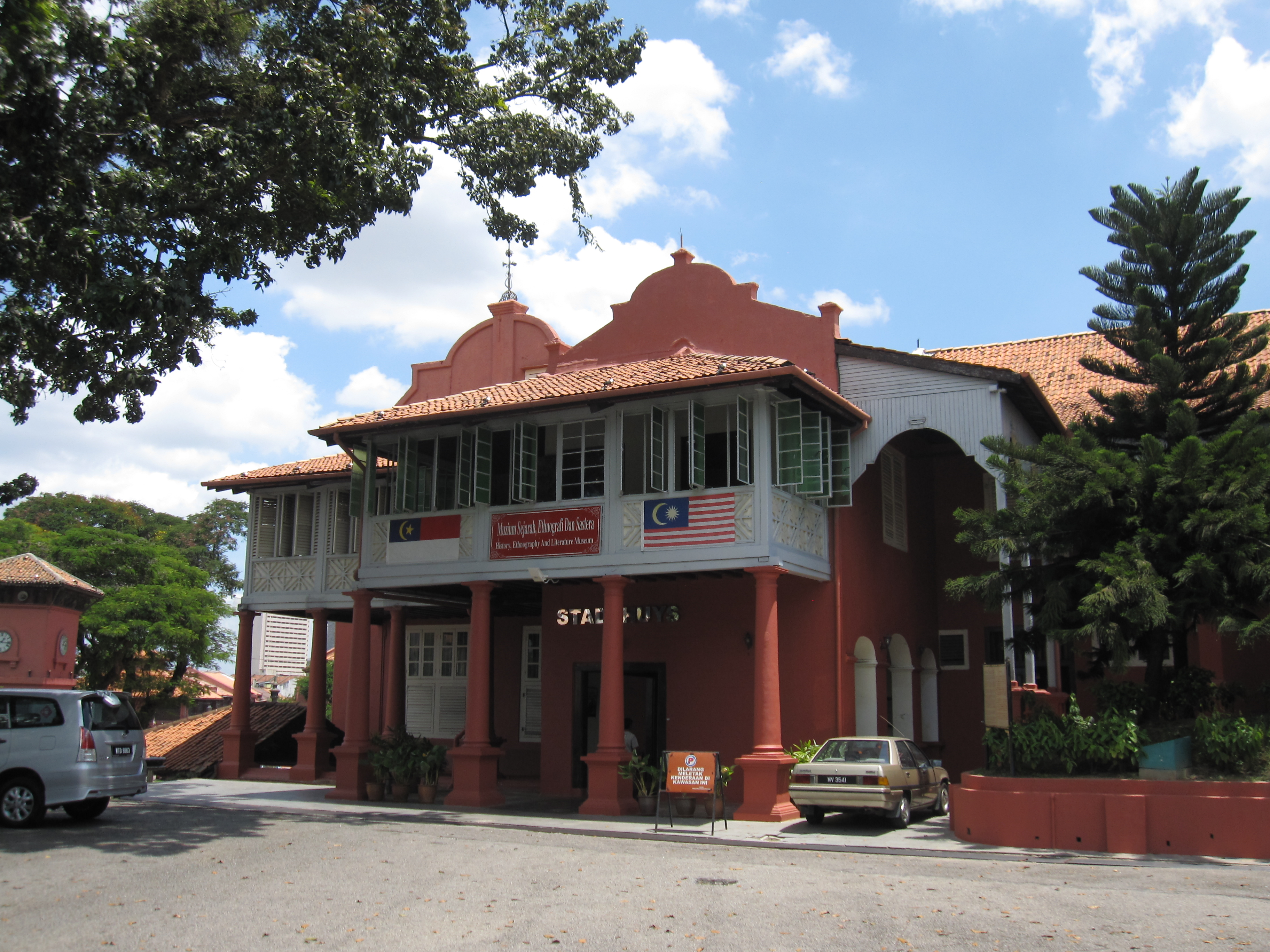 Stadthuys of Malacca, Malaysia.